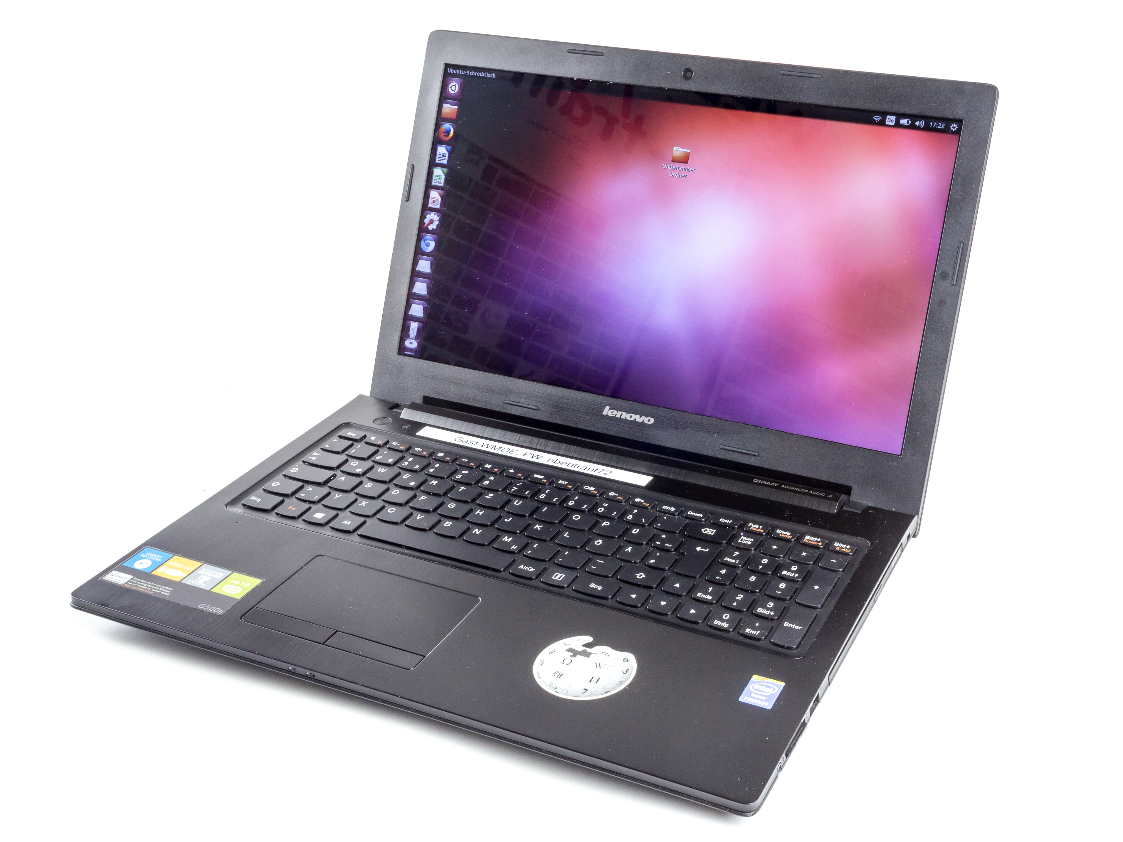 Lenovo G500s laptop with German keyboard layout